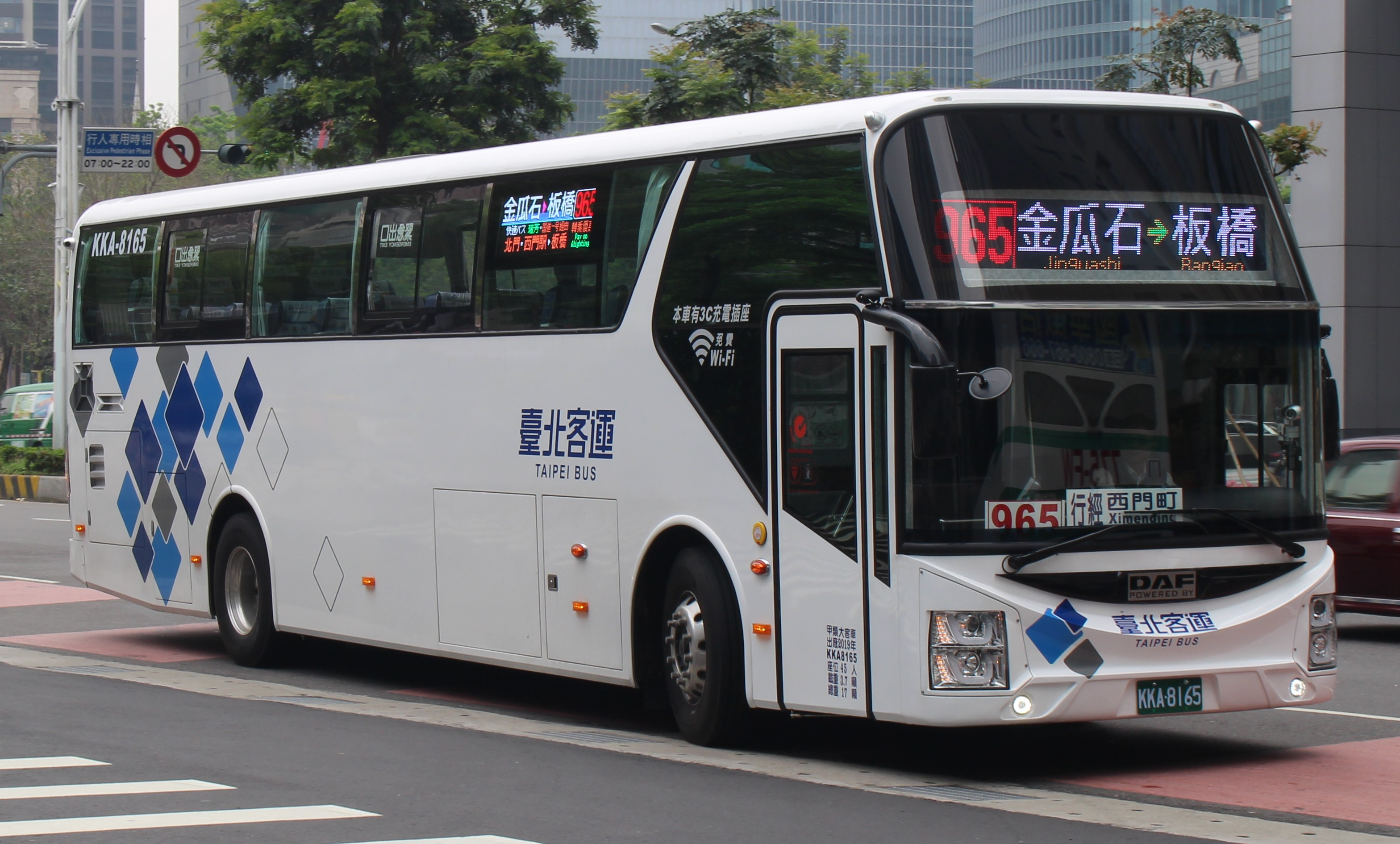 Taipei Bus 2019 JIAMA JMH-KL DF400-6100 KKA-8165